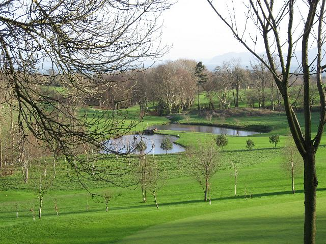 Fairways And Hazards On Henllys Golf Course.